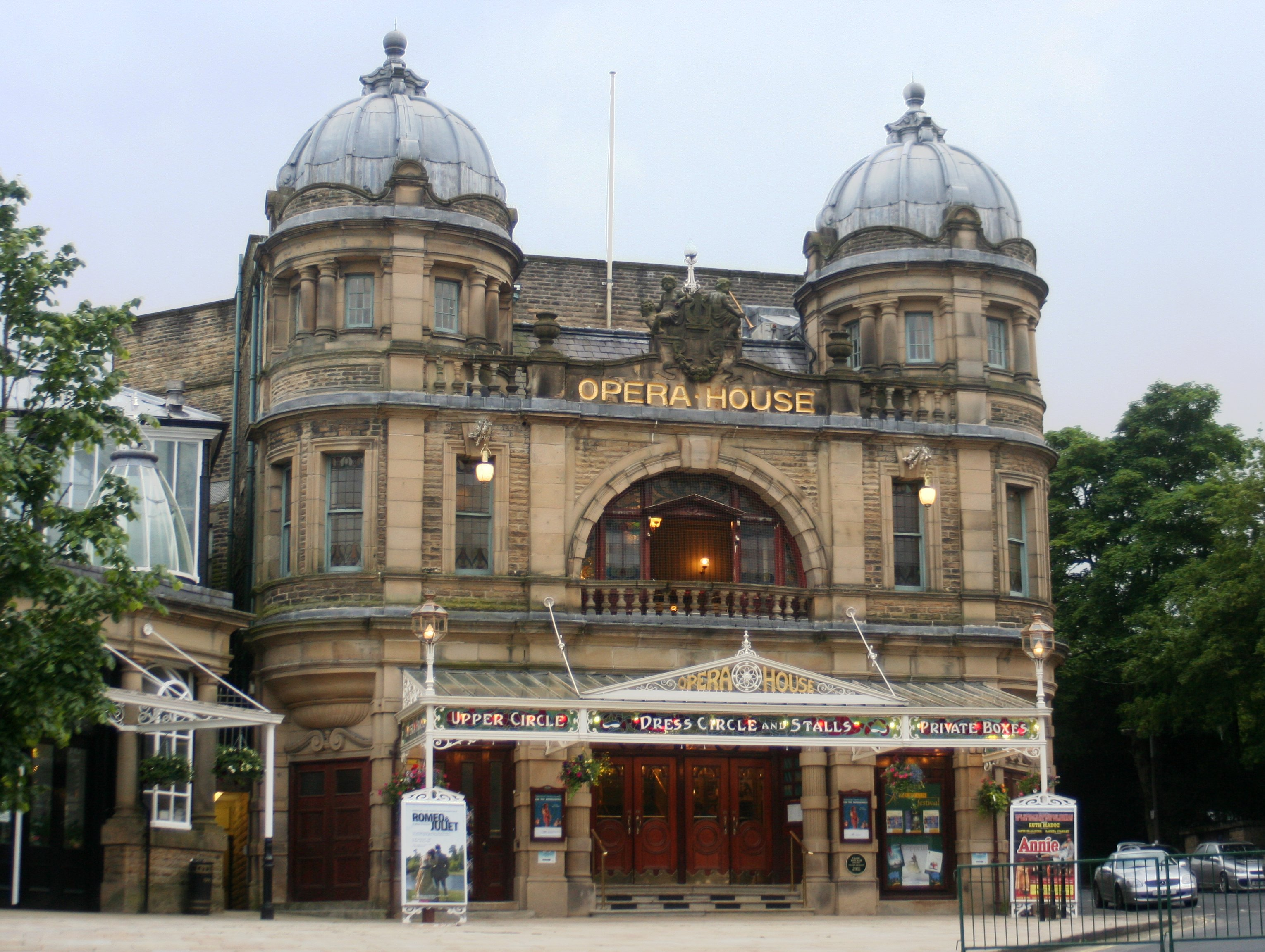 Opera House in Buxton, Derbyshire, England.